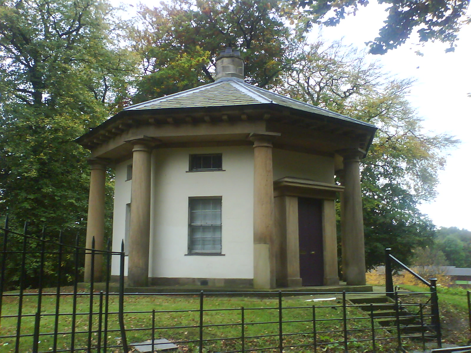 Smithy Lodge in Heaton Park, Manchester